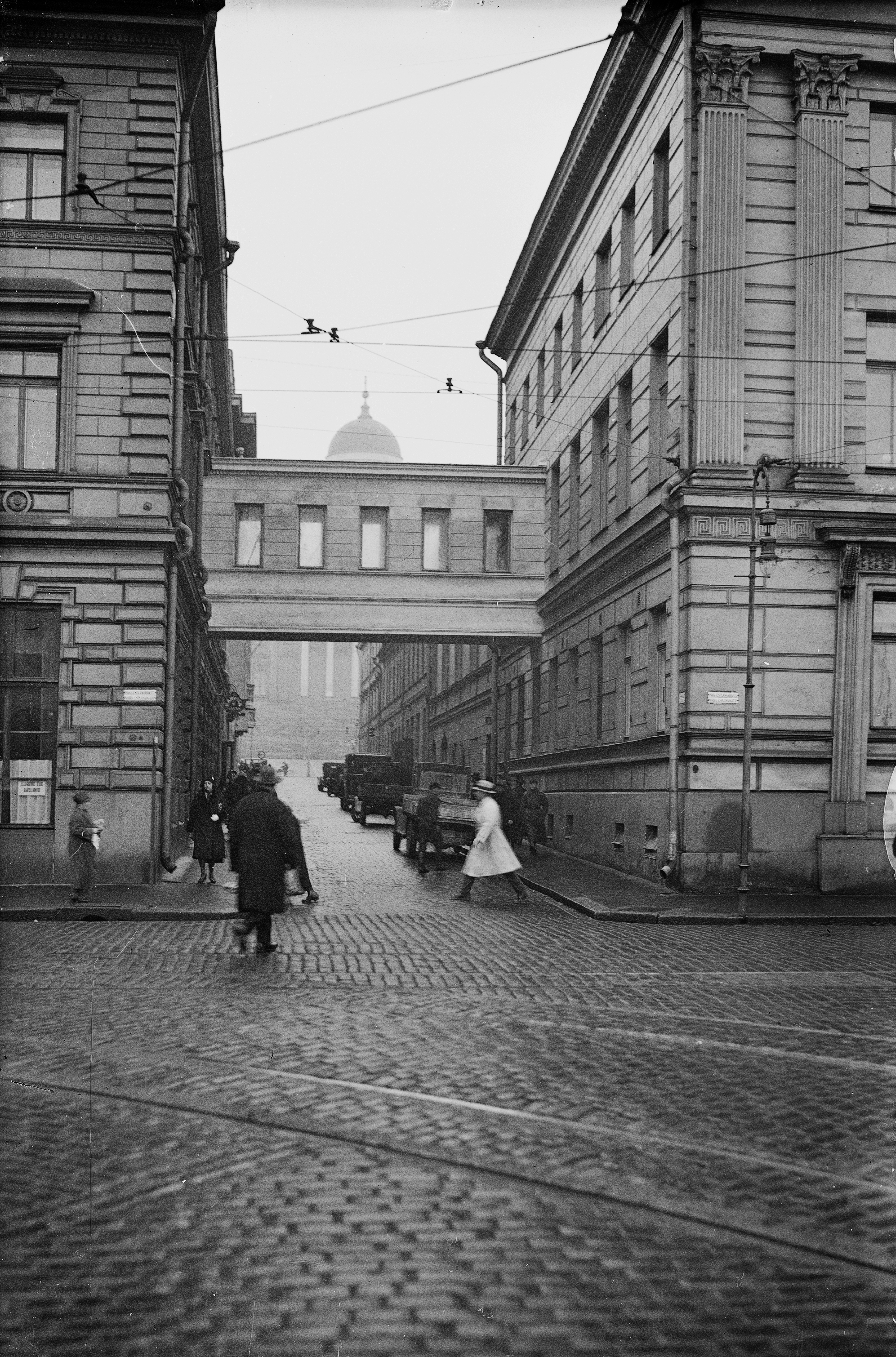 Bridge of Sighs, Sofiankatu Street, Helsinki, Finland (demolished in the 1960s).